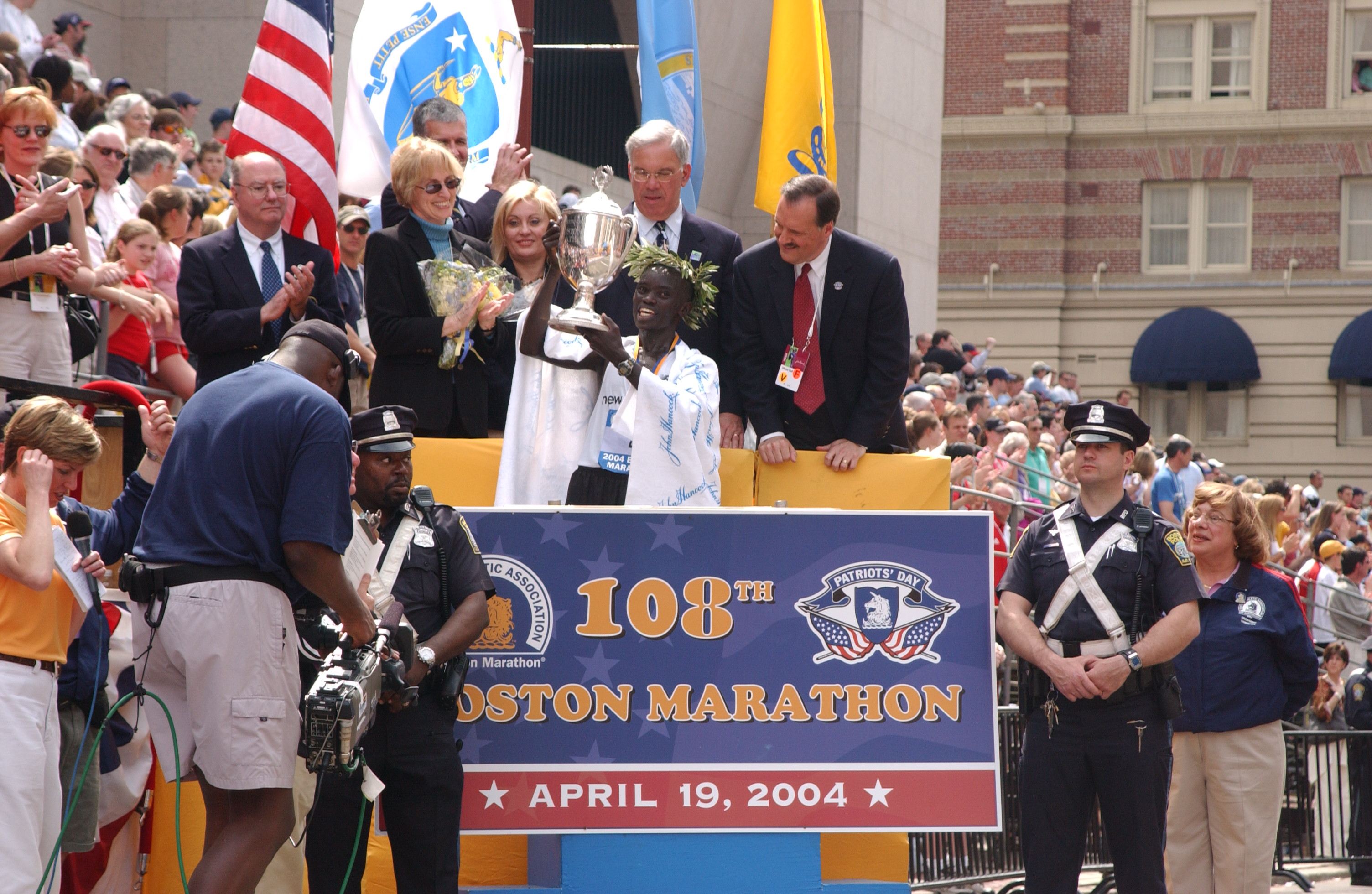 Title: Timothy Cherigat, winner of the 108th Boston Marathon, at Marathon Award Ceremony as Mayor Thomas M. Menino and others look on Creator: Isabel Leon, Mayor's Office - City Photographer Date: 2004 April 2 File name: DSC_2109 Source: Mayor Thomas M. Menino records, Collection #0247.001 Rights: Copyright City of Boston Citation: Mayor Thomas M. Menino records, Digital photograph files, Collection #0247.001, City of Boston